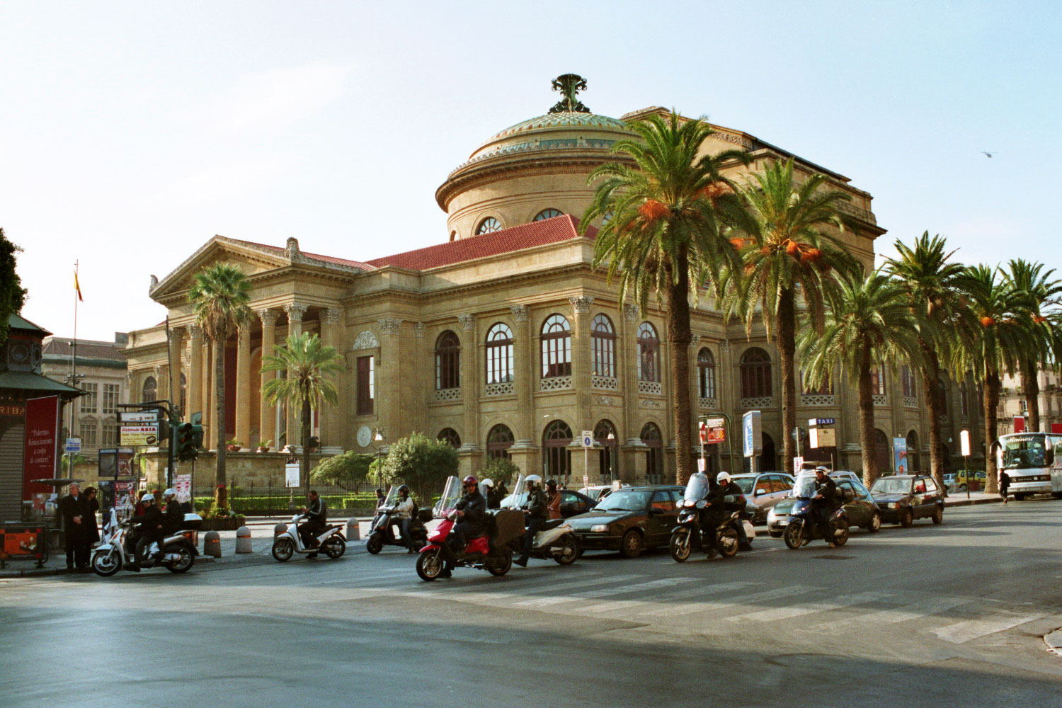 Teatro Massimo, Palermo. General view.